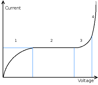 Voltage-current relation before breakdown